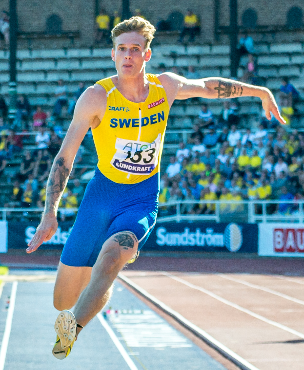 Andreas Carlsson during the Finland-Sweden athletics international 2019 at the Stockholm Stadium in August 2019.